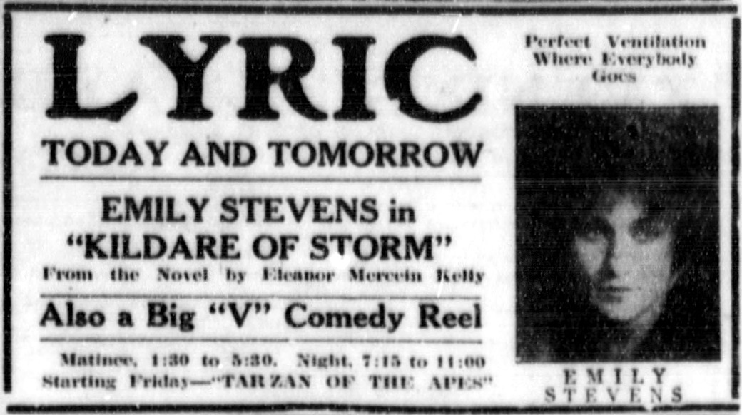 Kildare of Storm is a lost 1918 silent film produced and distributed by Metro Pictures and directed by Harry L. Franklin. This is a newspaper advert for this film.